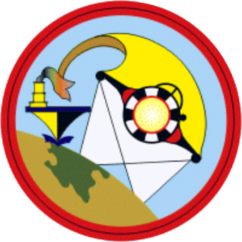 Squadron badge of the U.S. Navy light photographic squadron VFP-62 Fighting Photos.